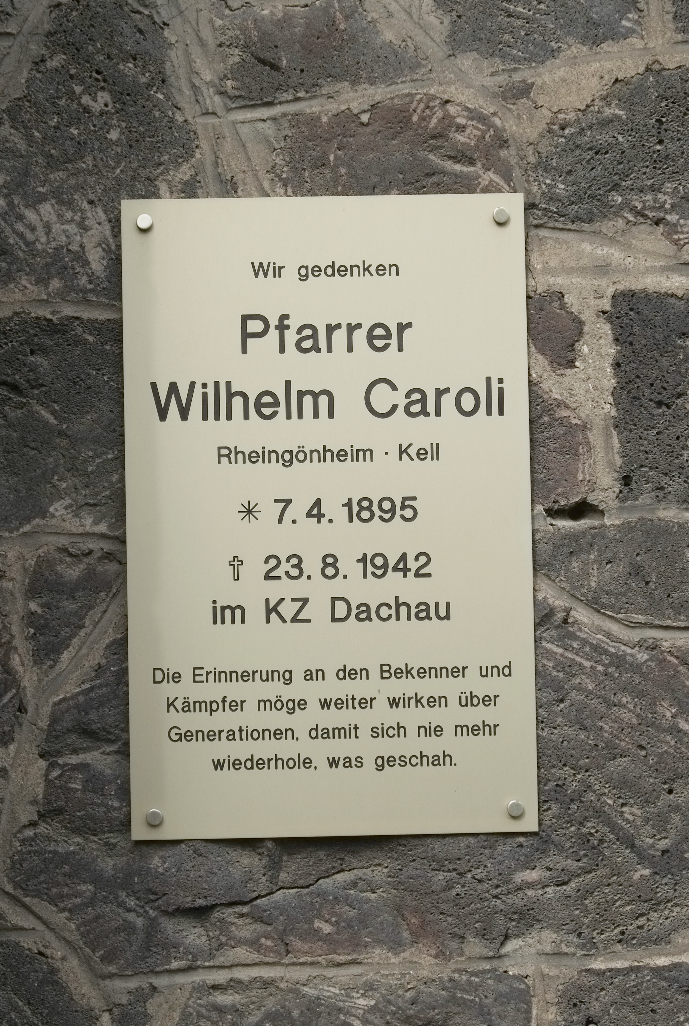 Gedenktafel für Wilhelm Caroli an der Kirche St. Lubentius in Kell im landkreis Mayen-Koblenz (Rheinlamd-Pfalz)